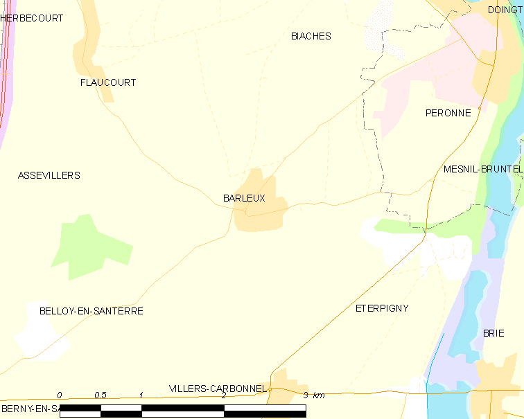 Map of French municipality Barleux